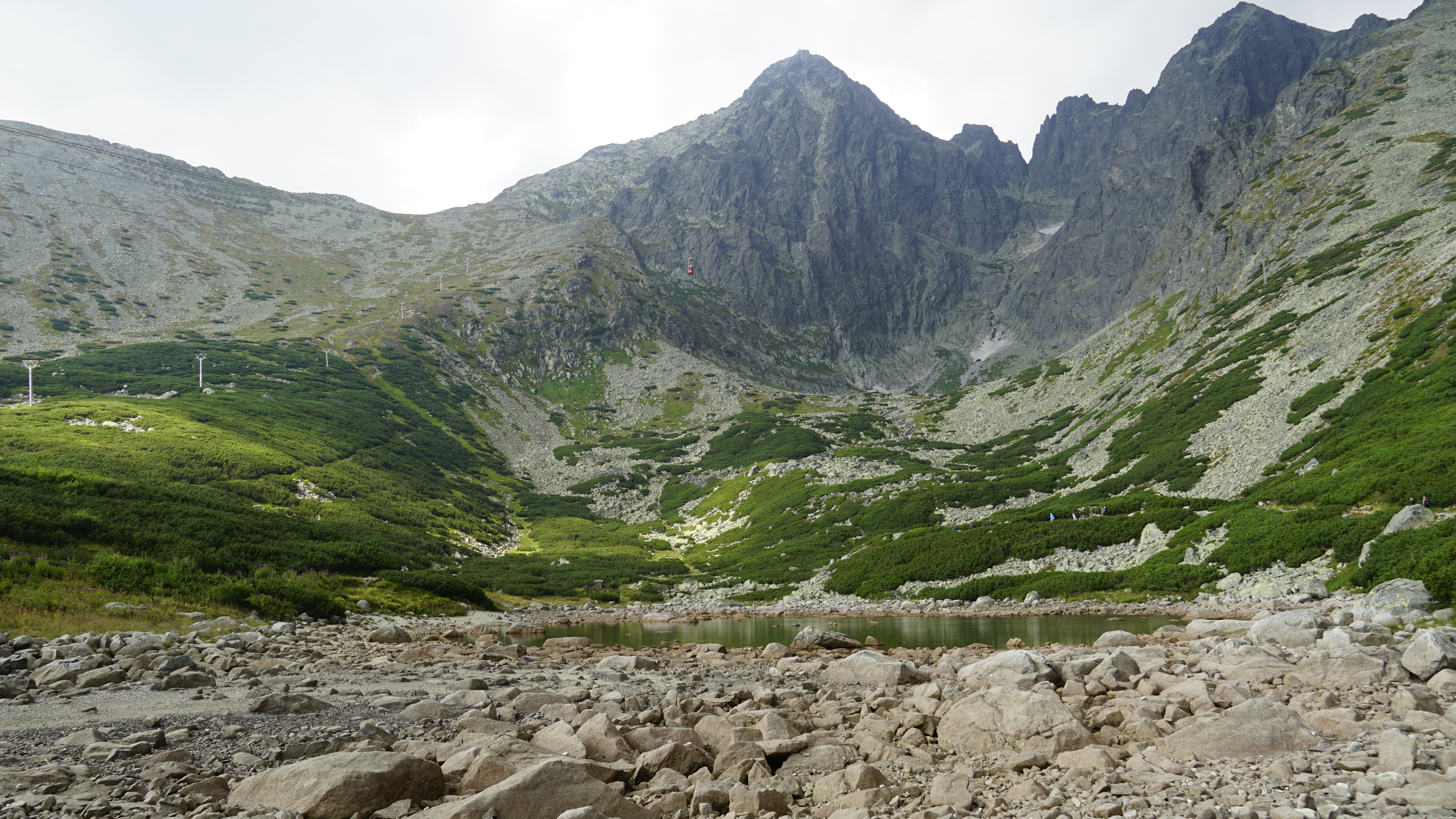 Skalnaté pleso with Lomnický štít in the background